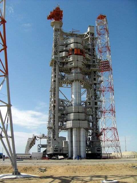 The Proton M with the Anik-F1R satellite payload is nestled in the mobile service tower a mere hours before launch.